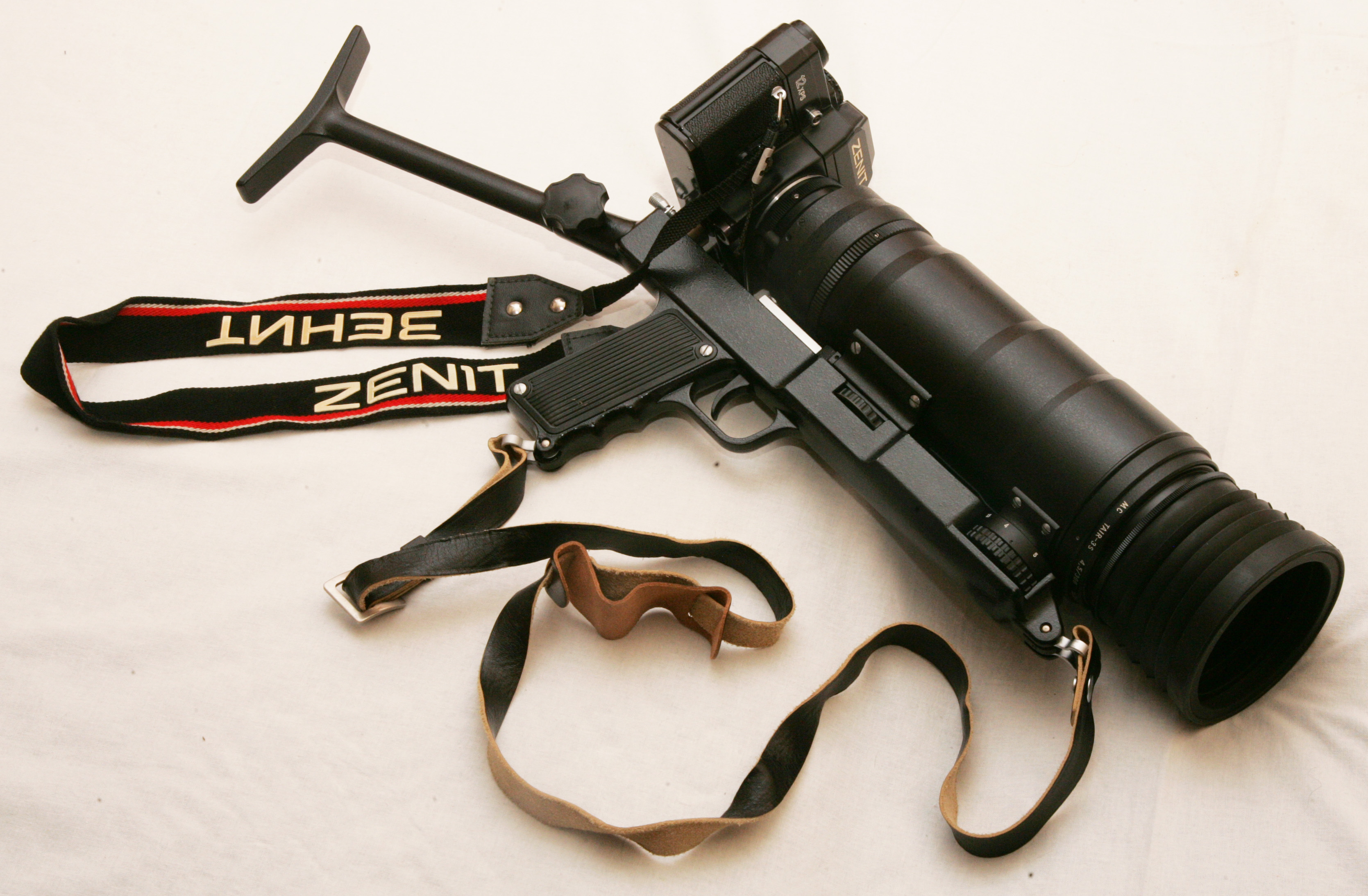 Assembled 'Photosniper FS-12-3' with 'MC Tair-3S' telephoto lens and 'Zenit-12xps' camera.